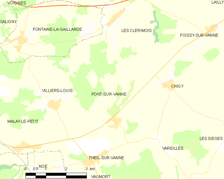 Map of French municipality Pont-sur-Vanne